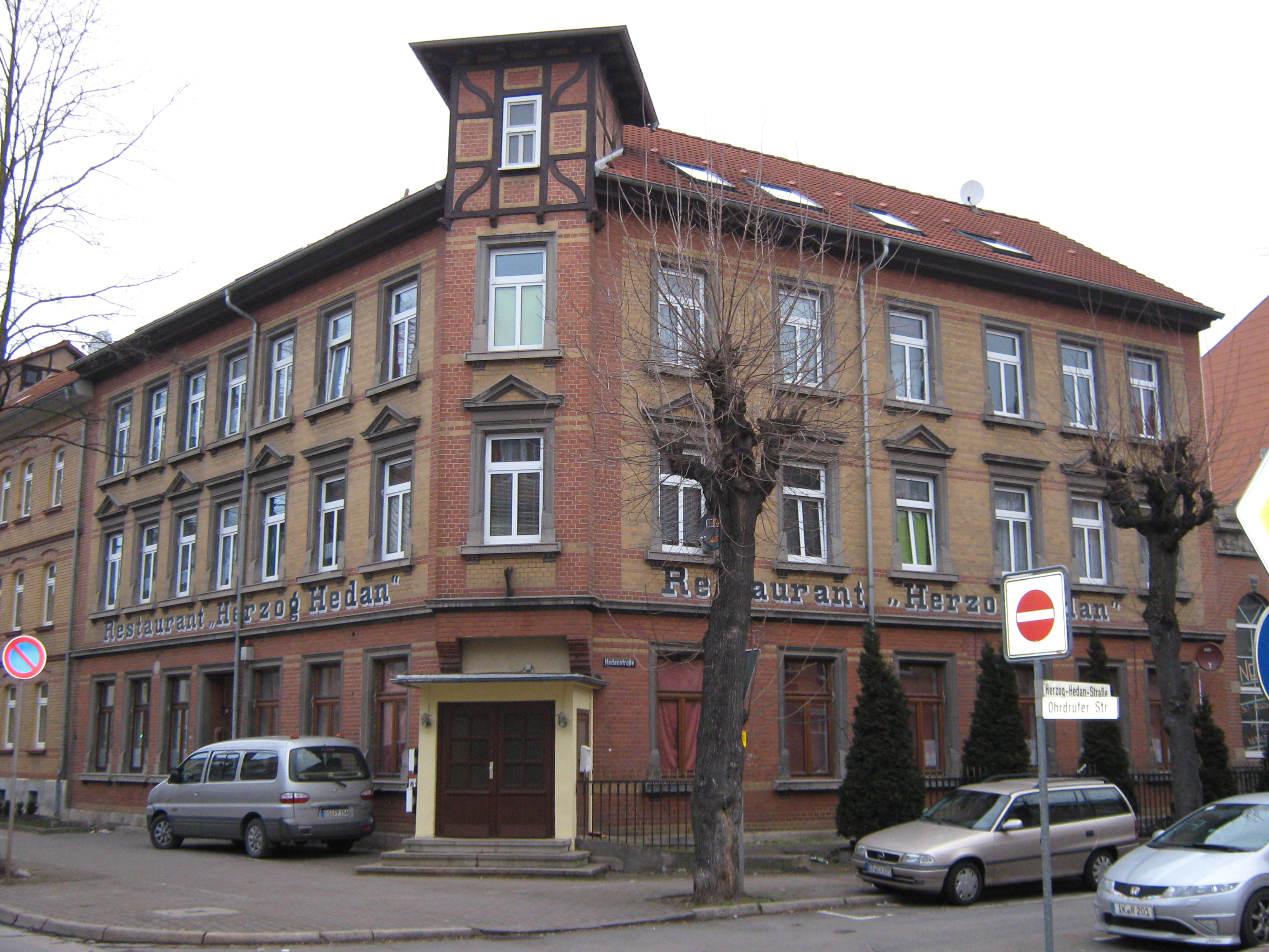 Closed inn Herzog Hedan in Arnstadt, corner Herzog-Hedan-Straße and Ohrdrufer Straße